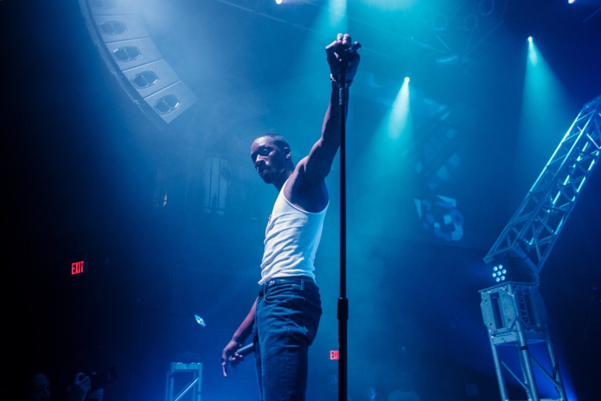 GoldLink performing in 2016.